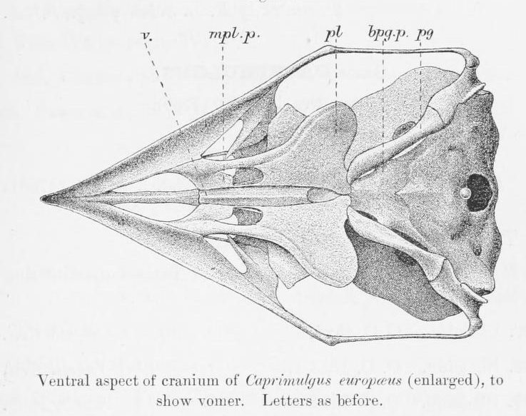 Skull of a Nightjar